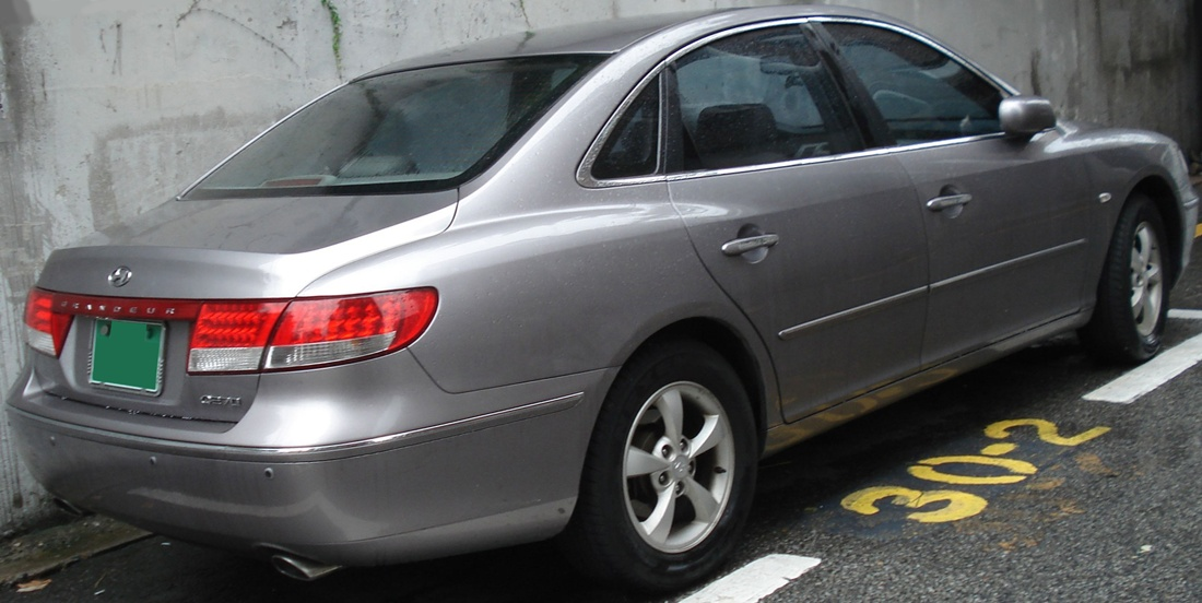 Hyundai Grandeur